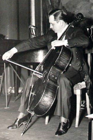 French musician Maurice Maréchal (1892-1964) playing the cello